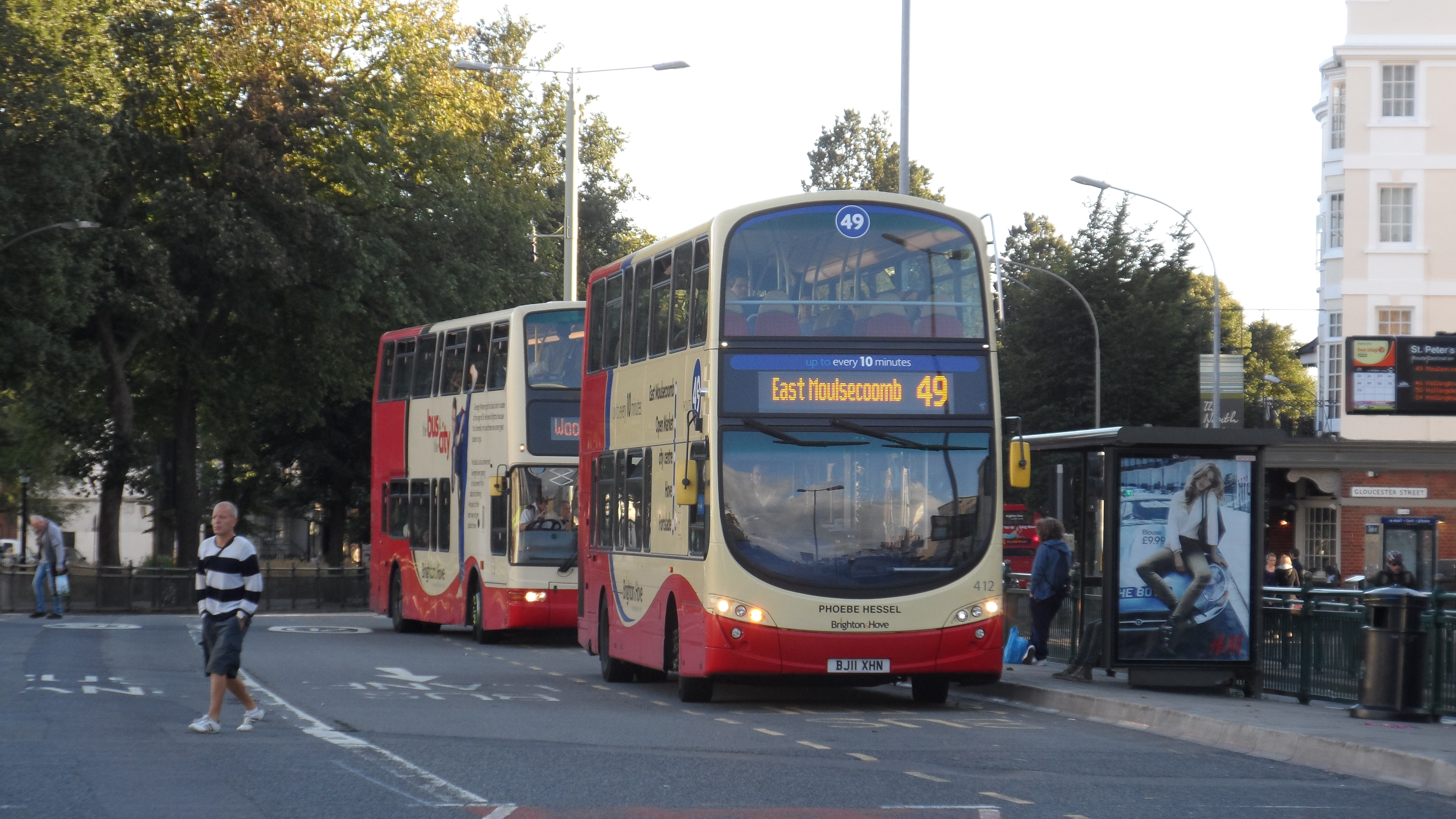 Brighton & Hove 412 Phoebe Hessel (BJ11 XHN), a Volvo B9TL/Wright Eclipse Gemini 2, in York Place, Brighton, East Sussex on route 49.